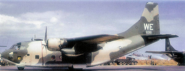 A Fairchild C-123K Provider (s/n 54-0696) of the 19th Air Commando Squadron, 315th ACW, at Phan Rang Air Base, South Vietnam, in April 1968. Another C-123K and a Curtiss C-46 Commando can be seen in the background. This aircraft was turned over to the South Vietnamese Air Force (VNAF) in 1972.